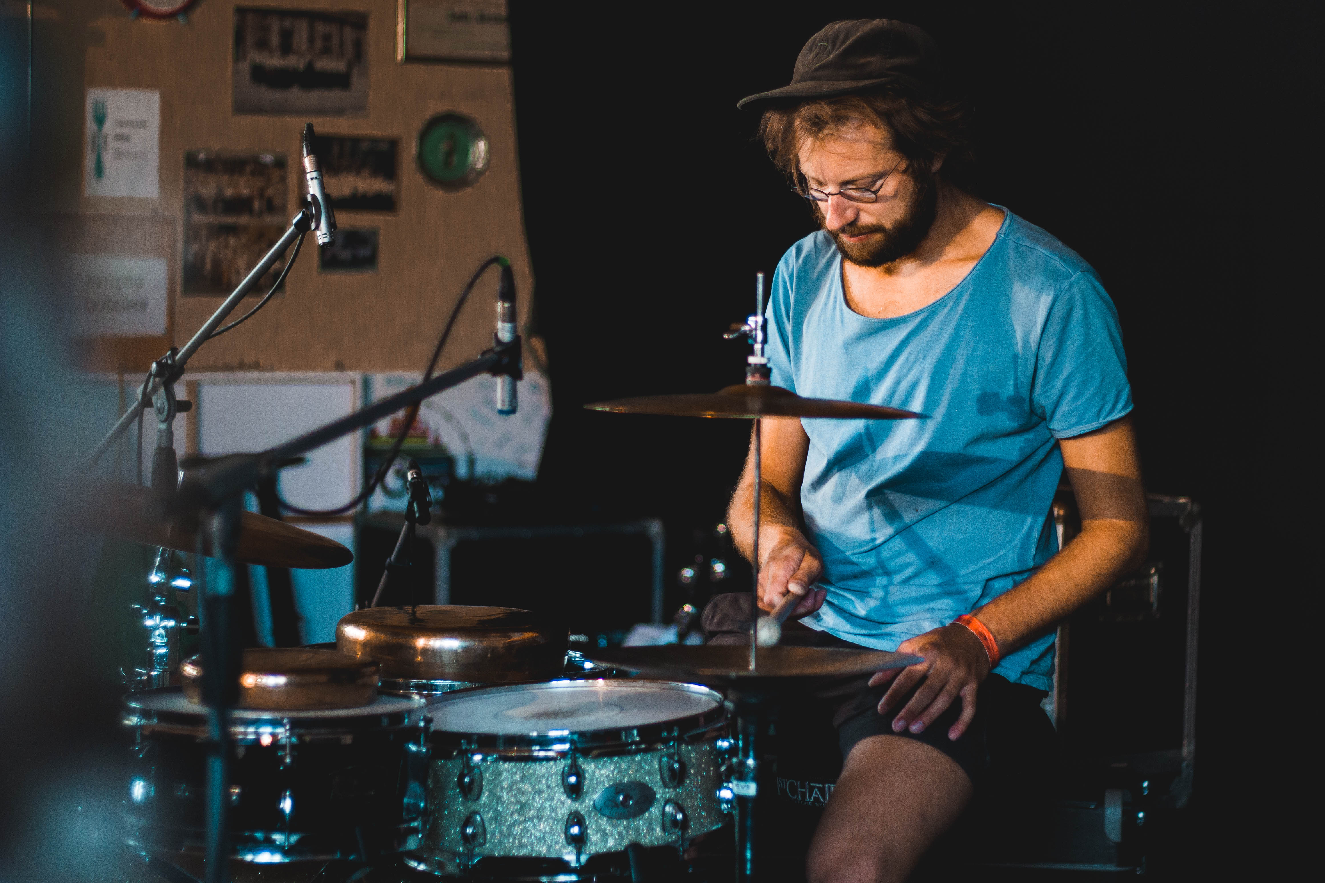 Julian Sartorius at Haldern Pop Festival 2018 in Haldern